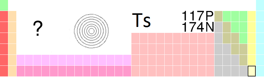 Tennessine on the periodic table